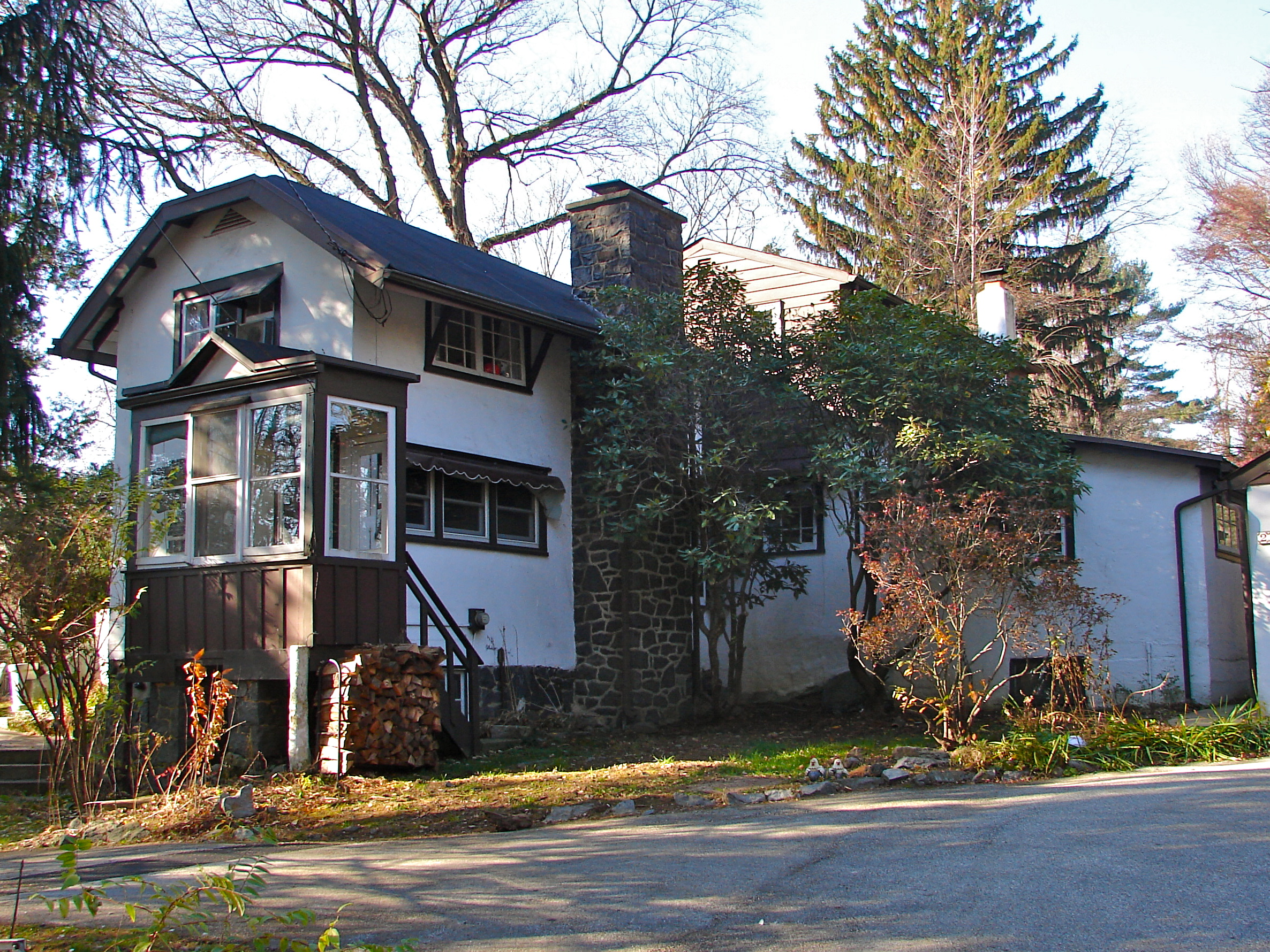 House in Arden, Delaware part of Ardens Historic District, on the NRHP since May 30, 2003, near Orleans Rd. at Harvey Rd., Arden, Delaware. Or part of Village of Arden, on the NRHP since February 6, 1973, located 6 miles north of Wilmington between Marsh Rd., Naaman's Creek, and Ardentown , Arden, Delaware. (These clearly overlap) House, known as "The Lodge," designed by Will Price, built about 1910